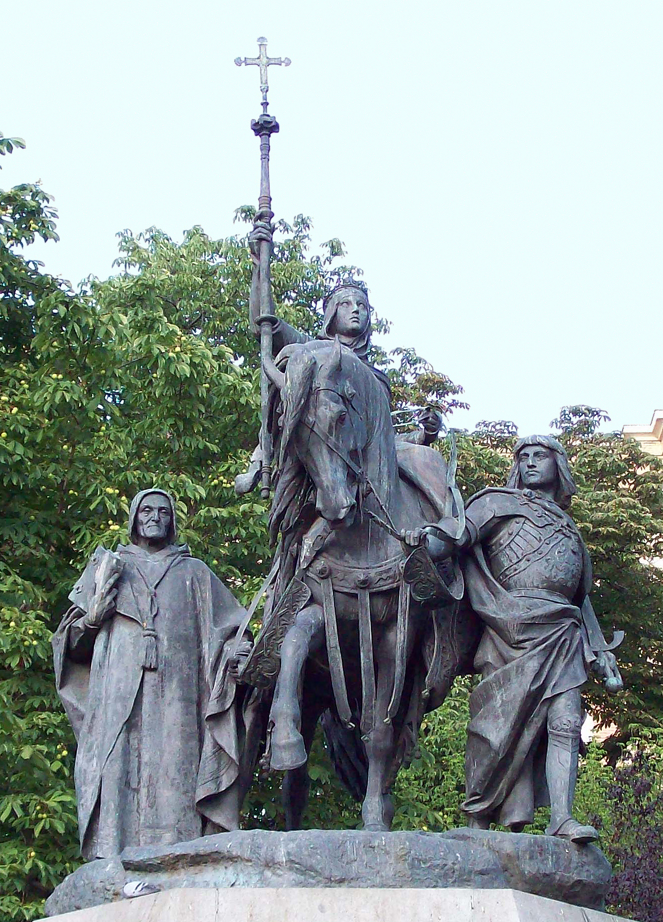 Partial view of the Monument to Isabella of Castile, the Catholic (1451–1504), at the Paseo de la Castellana (avenue) in Madrid (Spain). Made of bronze and stone by Manuel Oms y Canet and built in 1883. It represents the Queen (equestrian statue) with Cardinal Mendoza (left) and Gonzalo de Córdoba (right).